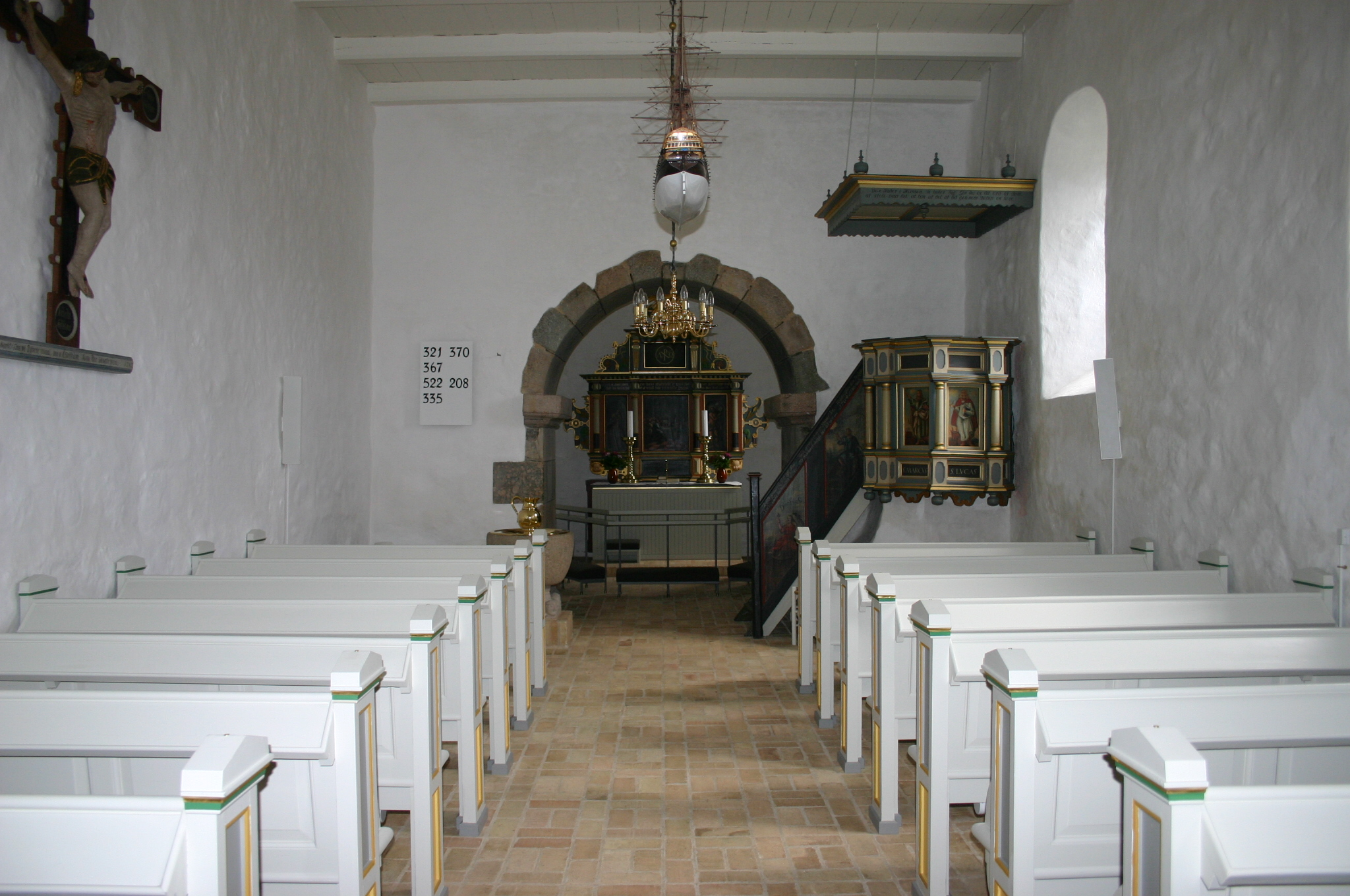 The inner of the Dollerup parish church, Mid Jutland, Denmark. Dollerup Kirkes indre (Viborg Kommune)